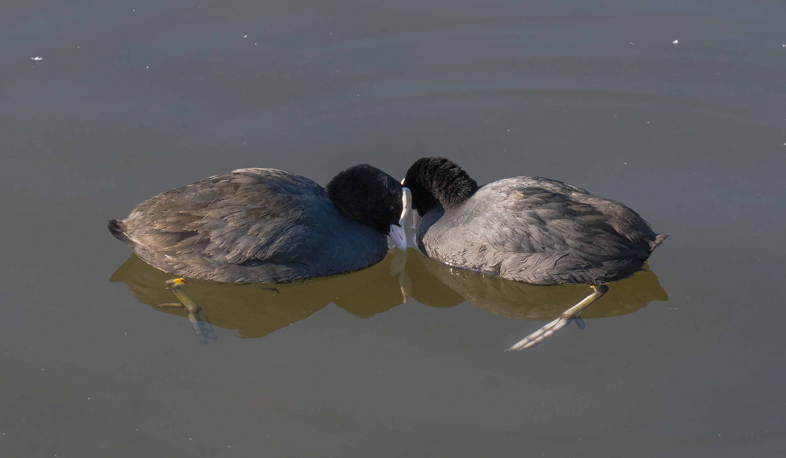 Eurasian Coot (Fulica atra), Nymphenburg Palace, Munich, Germany